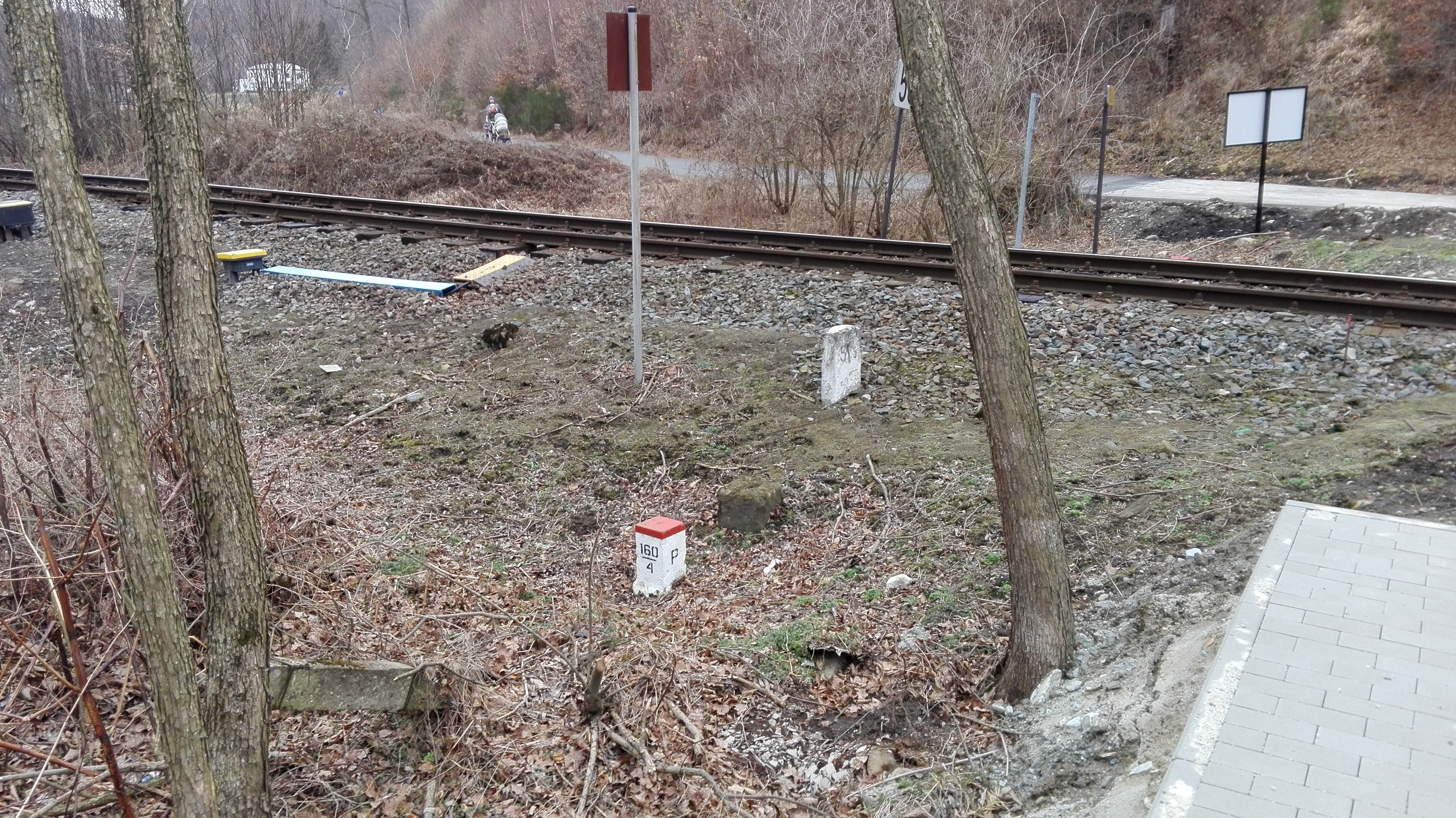 Railway Głuchołazy-Mikulovice border crossing